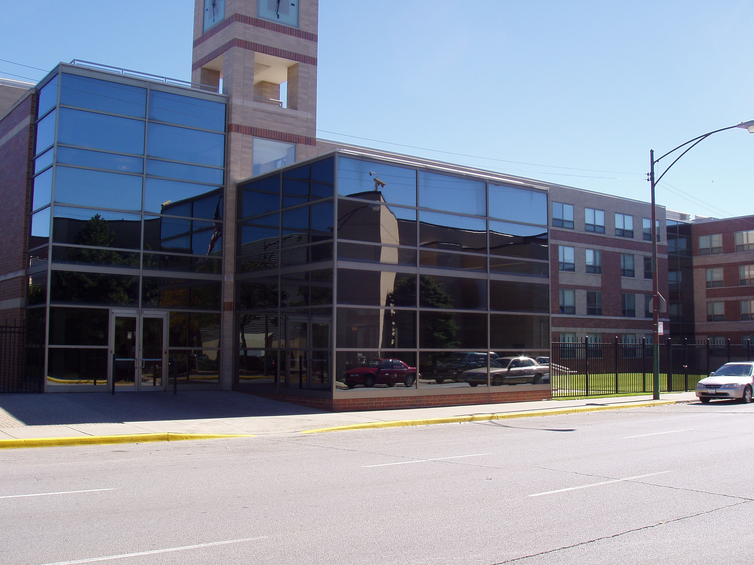 This is a picture of the Illinois College of Optometry Resident Complex, taken from Indiana Ave, Chicago.